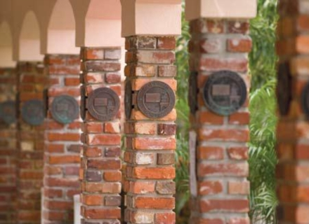 Campus Image